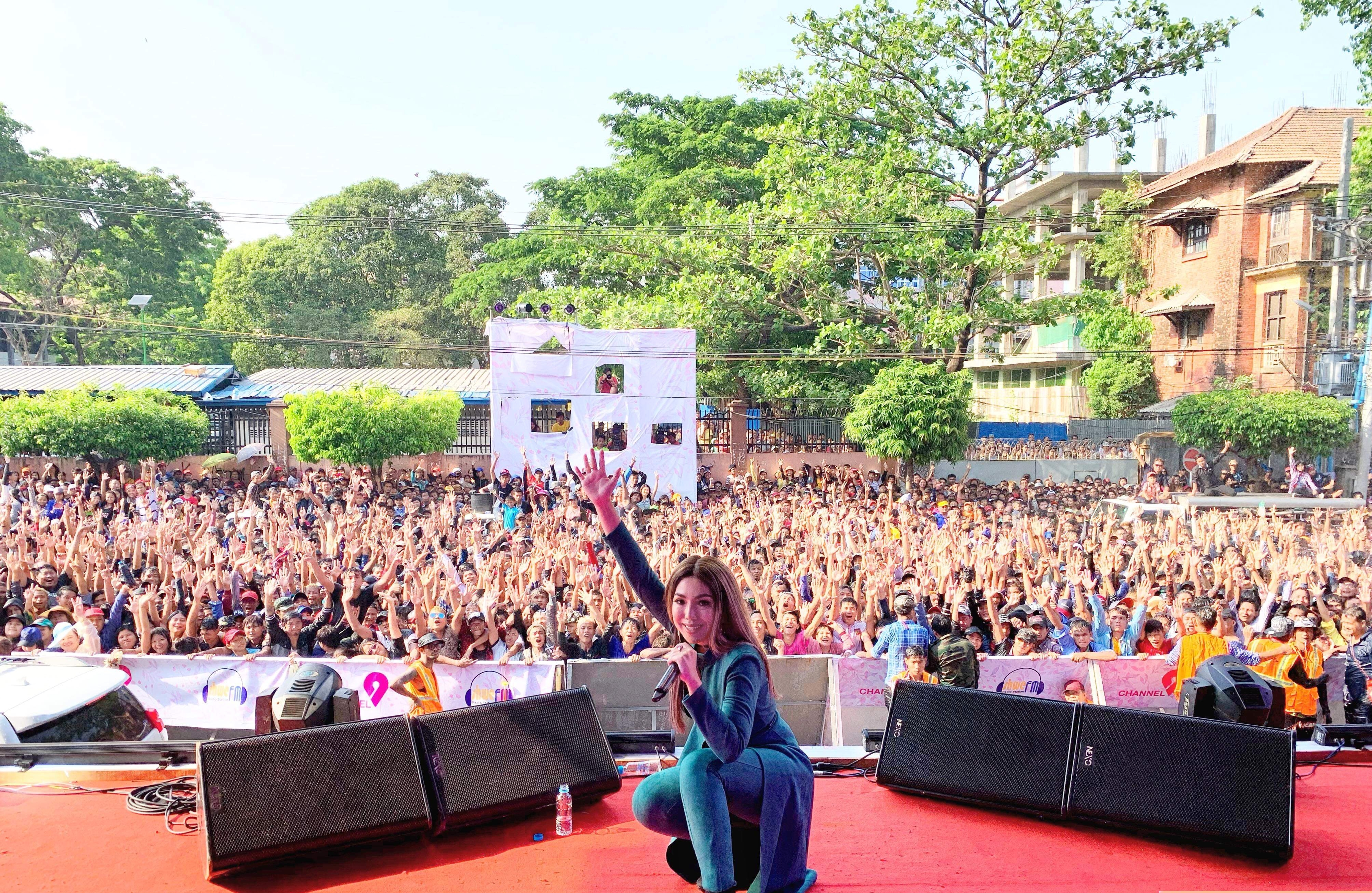 Warso Moe Oo is a actress and singer from Myanmar.